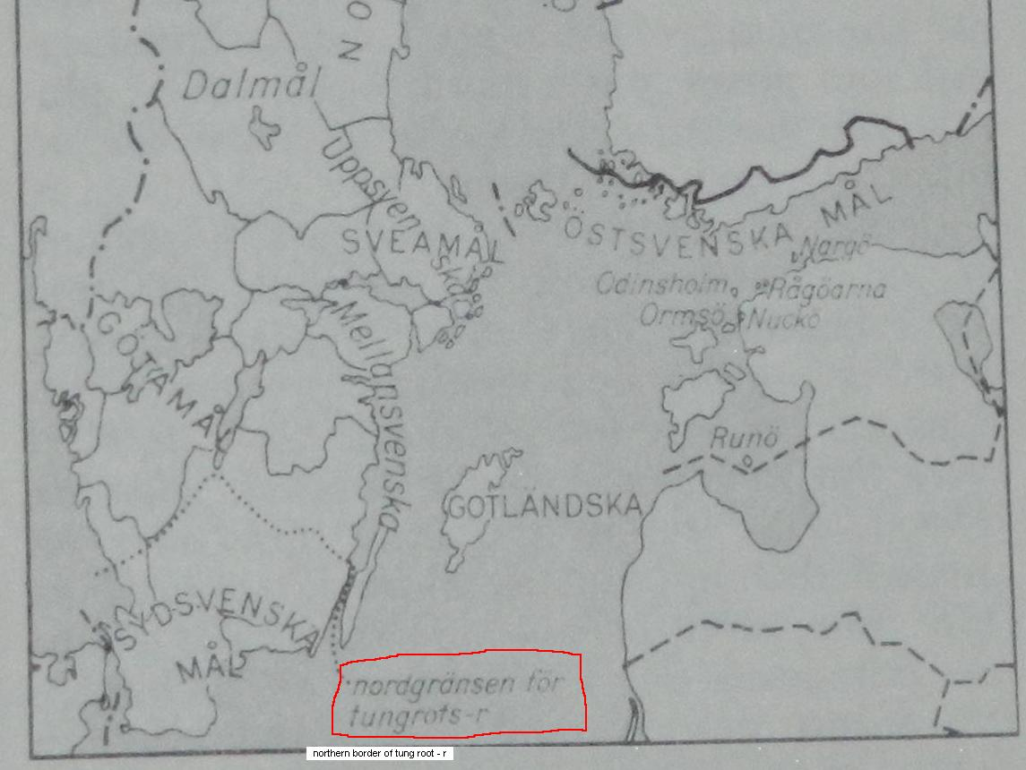 Photo from Swedish encyklopedia, "Bonniers lexikon" , 1964. Shows the northern border of "guttural R" or "French R" pronounciation whithin Swedish dialects. (Map do not show entire Sweden, and that isn't necessary for its purpose)